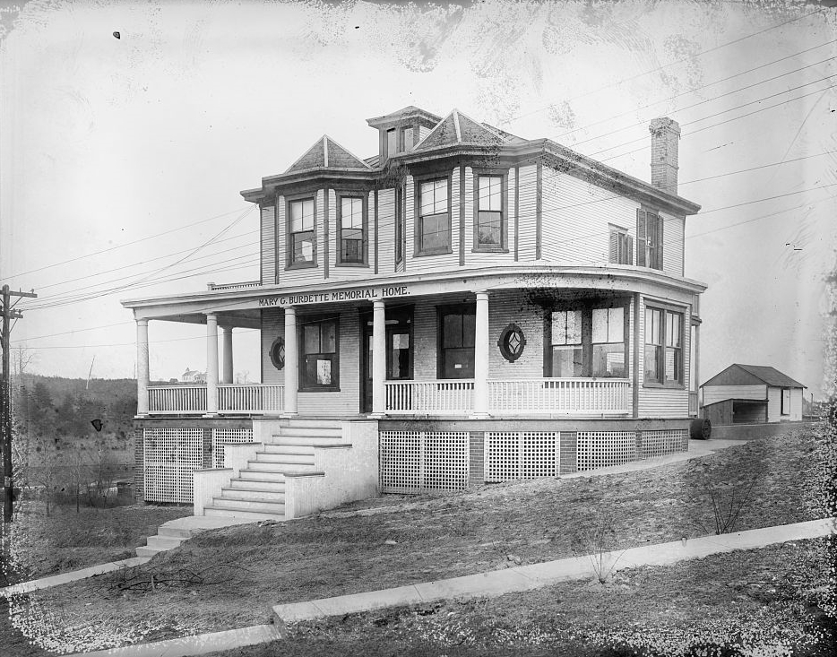 National Training School for Girls, 3/30/15